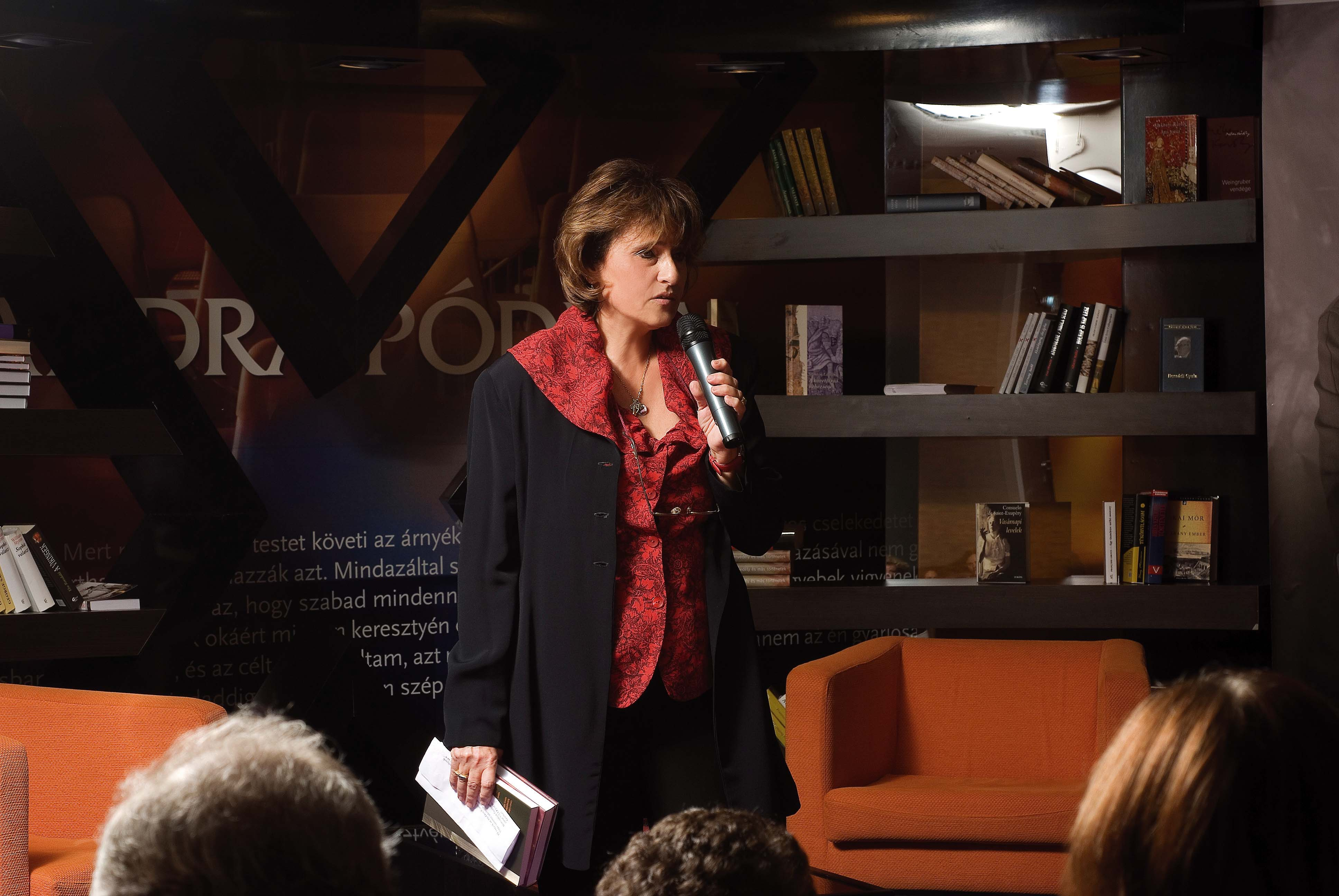 Judit Pataki Director of Ab Ovo. Travels in Erotica book presentation. Photo by Andras Hasz.